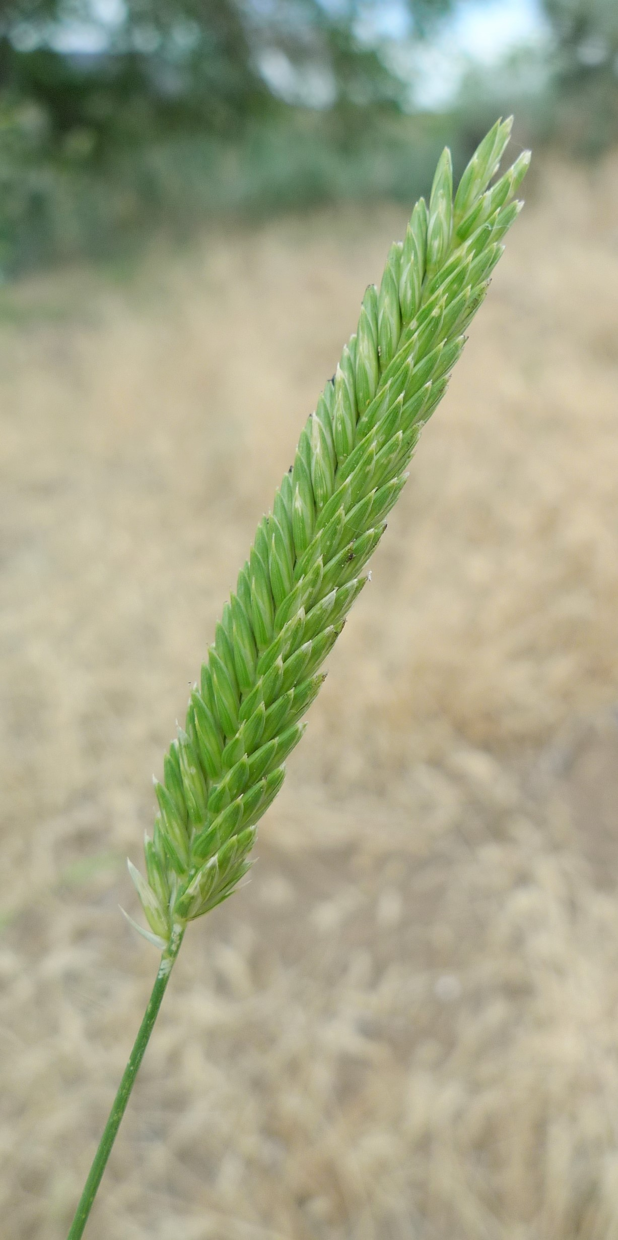 Agropyron cristatum at the Colockum Wildlife Area, Chelan County Washington